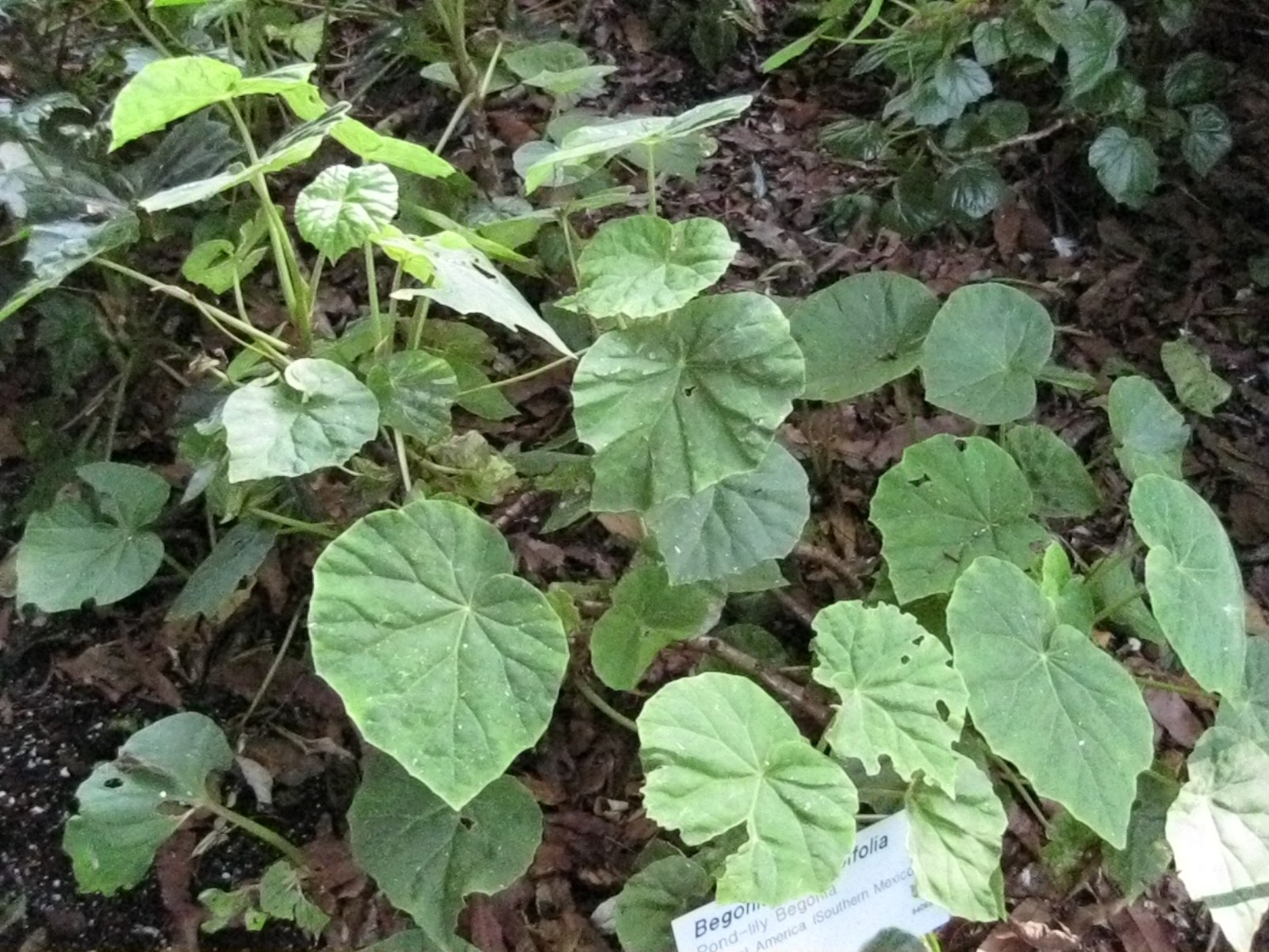 Photographed at the Royal Botanic Gardens Sydney (Australia) in December